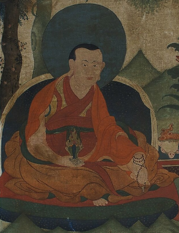 Wonpo Lhakyab, The Second Tatsak Jedrung, b.1474 - d.1508